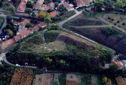 Tiszaalpár, Hungary, aerialphotography